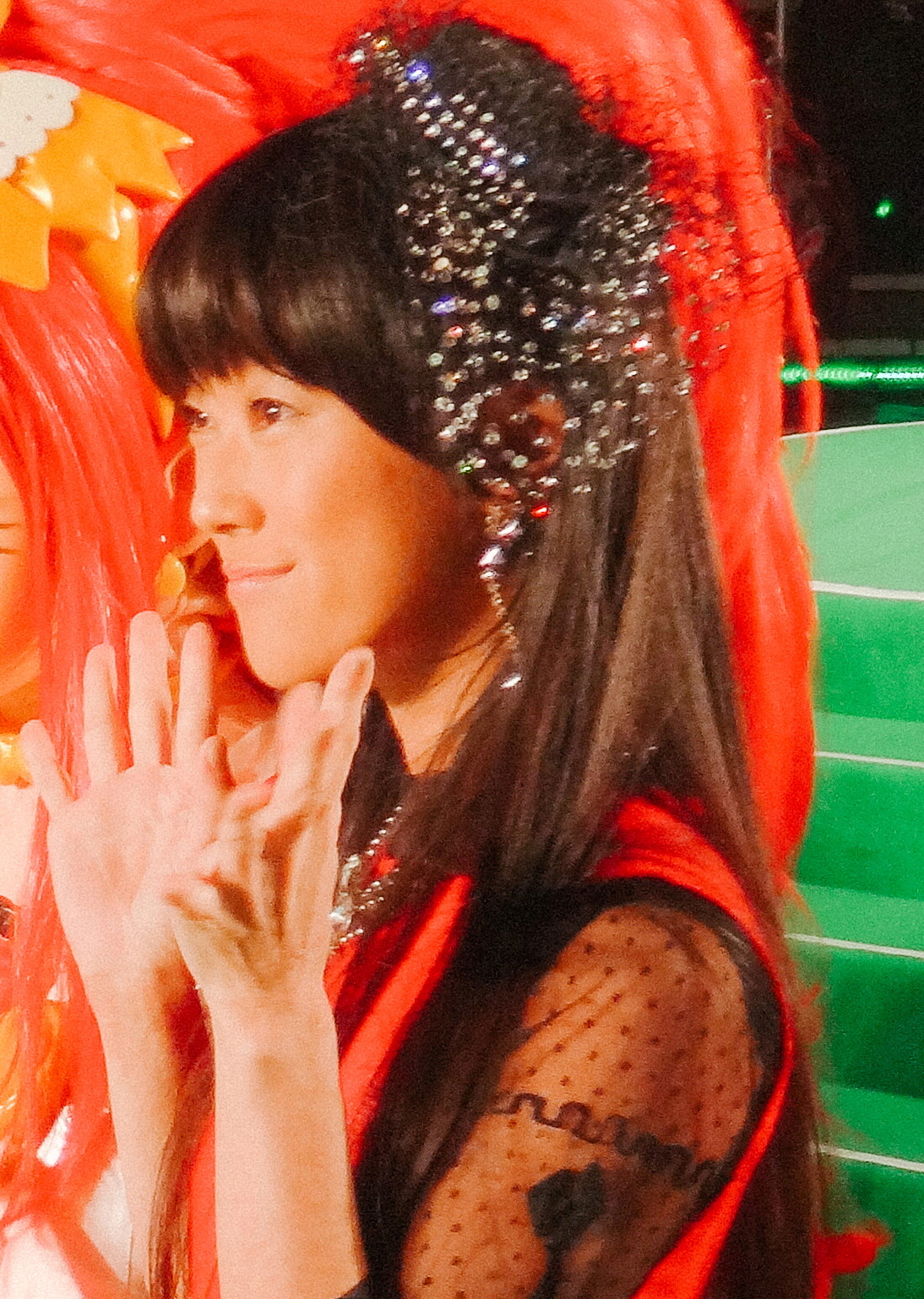 26th Tokyo International Film Festival Kugimiya Rie from DOKIDOKI PRETTY CURE! THE MOVIE Memories for the Future